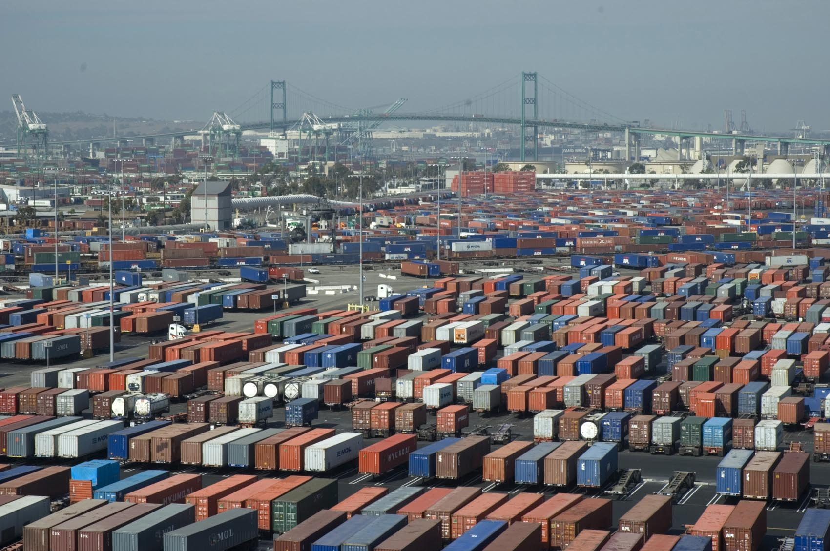 Long Beach container port. Original description: "The Port of Los Angeles/Long Beach is the largest and busiest port in the U.S., handling about 45 percent of all containers incoming into Customs and Border Protection."